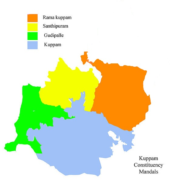 The constituency was divided and made in such a way it has only 4 mandals